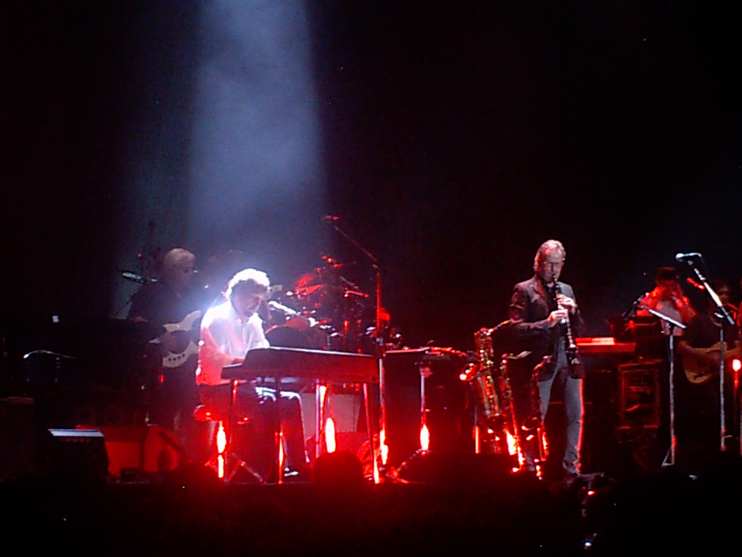 Singer and pianist Rick Davies and saxofonist John Helliwell (playing the clarinet here) of Supertramp, performing at the Gelredome XS. Bassist Cliff Hugo is standing behind Davies.